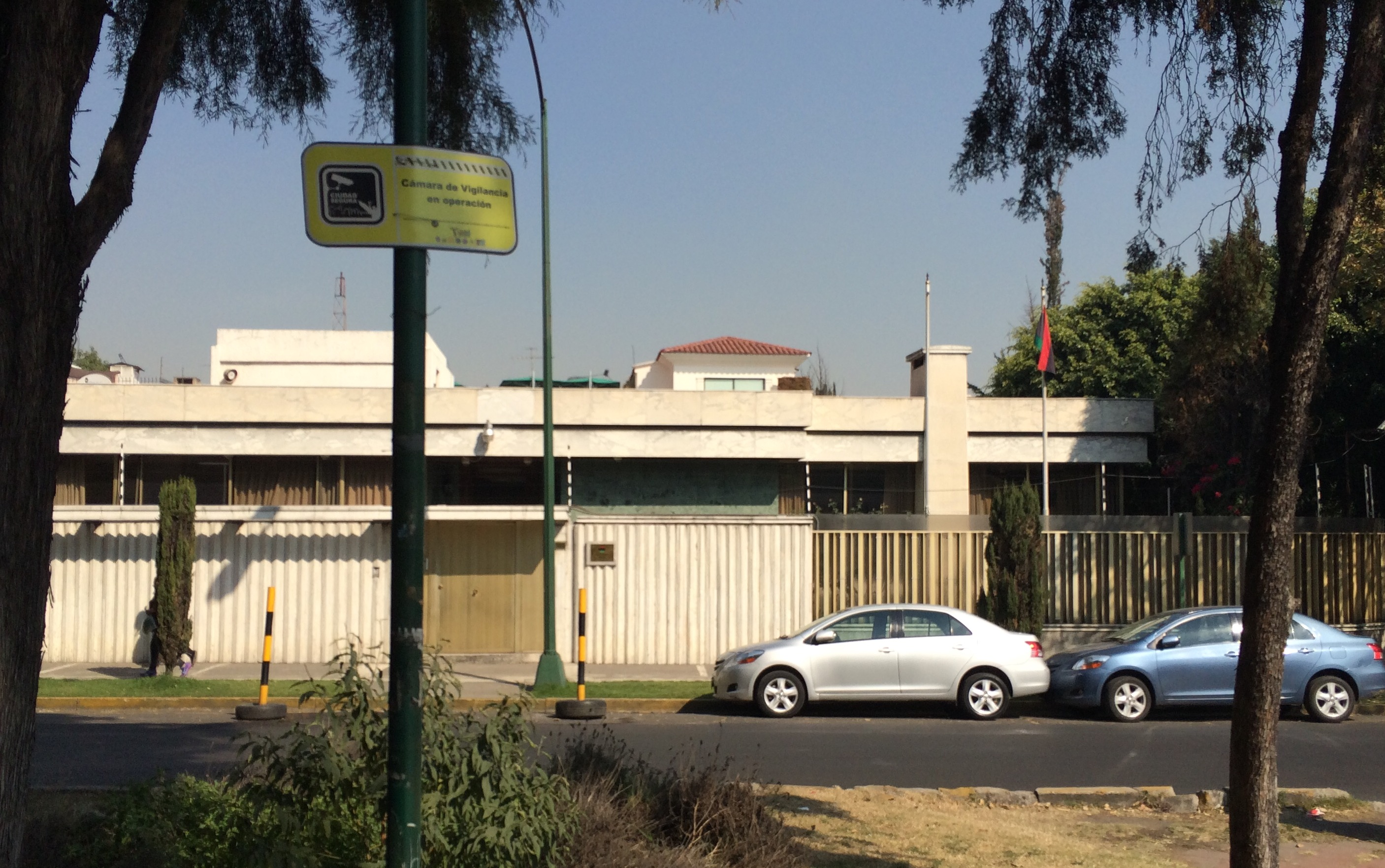 Former Embassy of Libya in Mexico City